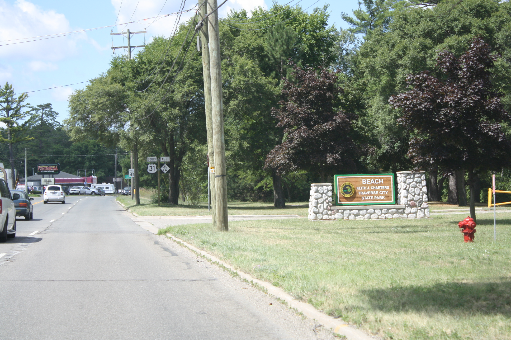 The sign for Traverse City State Park in Traverse City, Michigan.